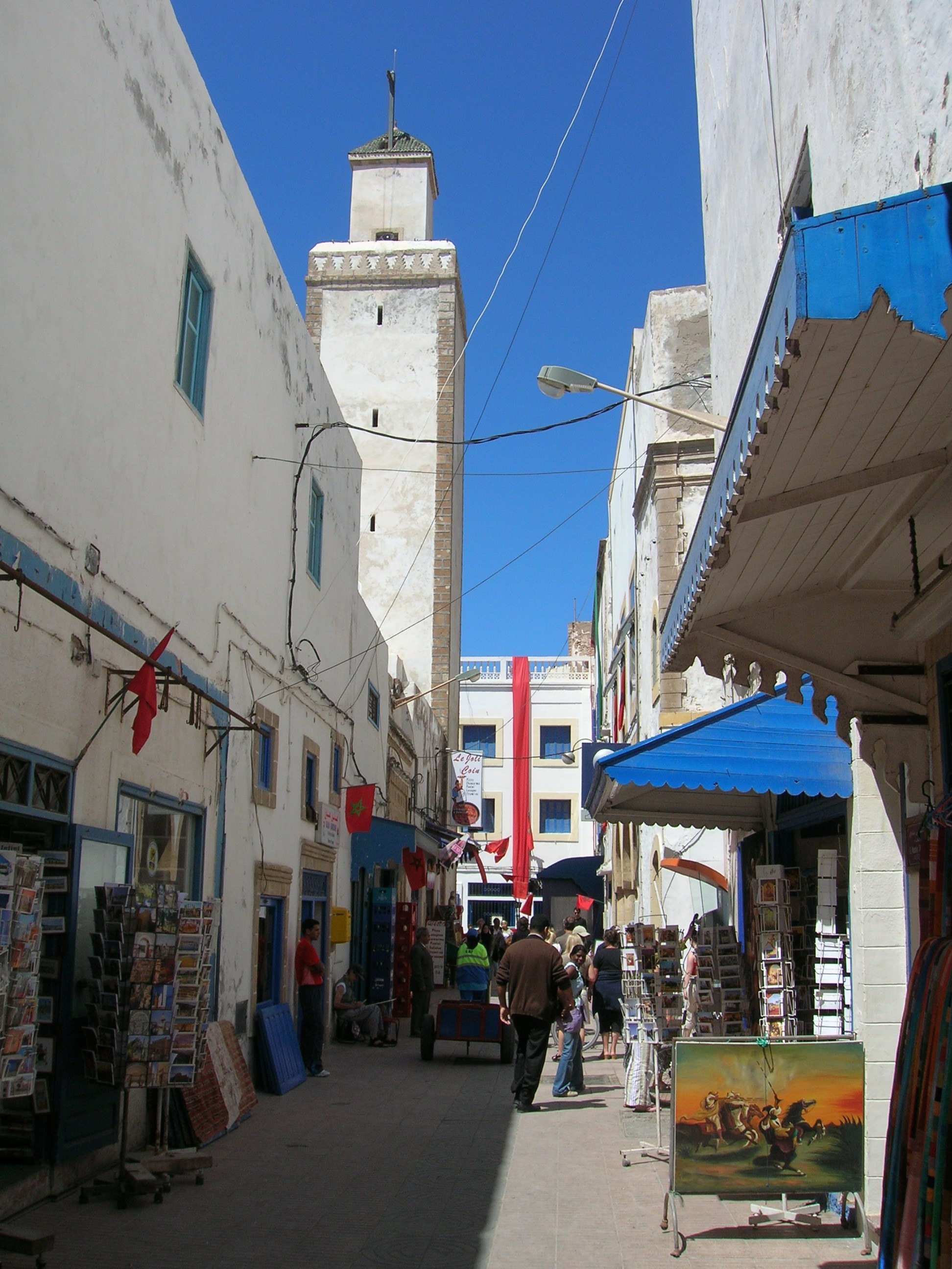 Street in Essaouira, Morocco